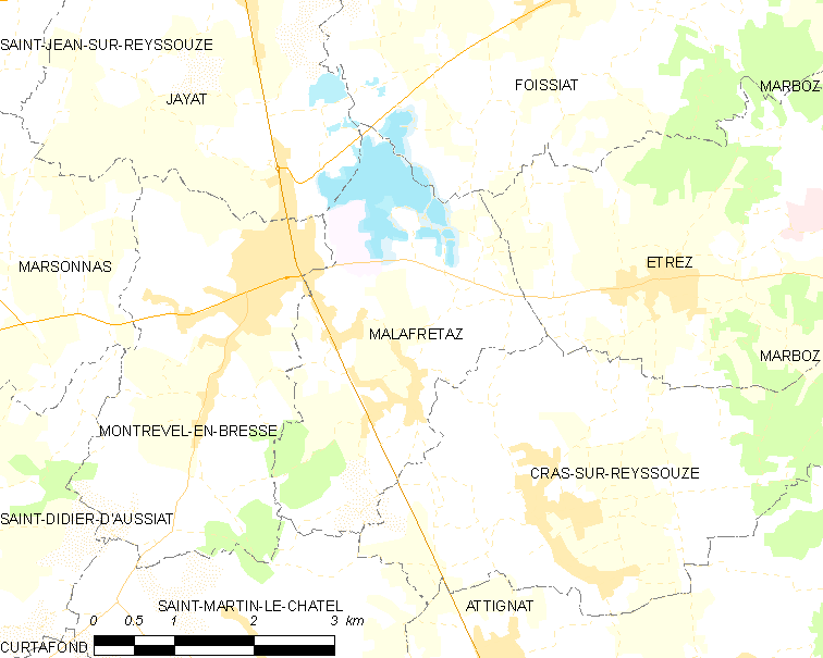 Map of French commune: Malafretaz Map commune FR insee code 01229.png